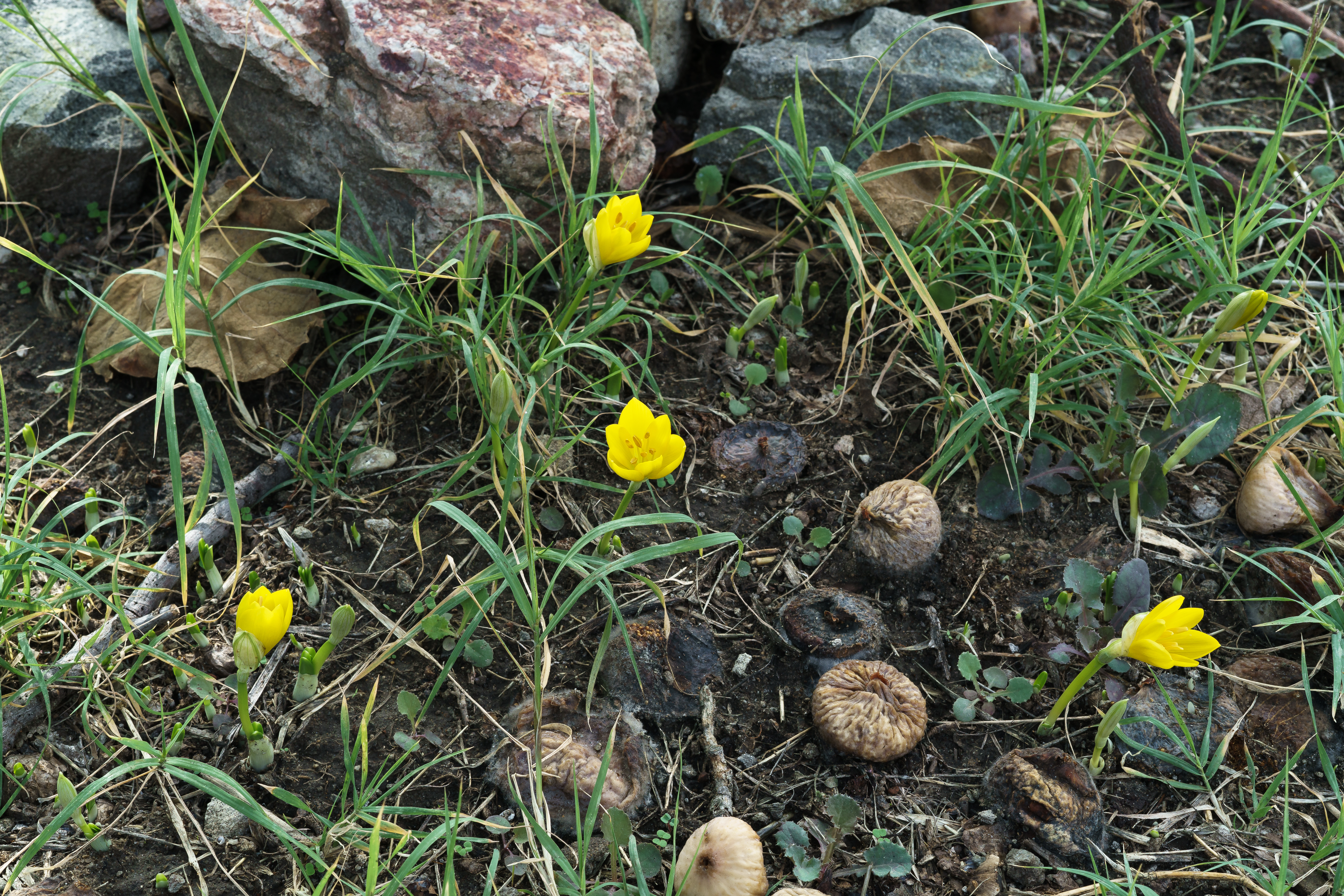 Sternbergia lutea. under a fig tree - Evros / Greece